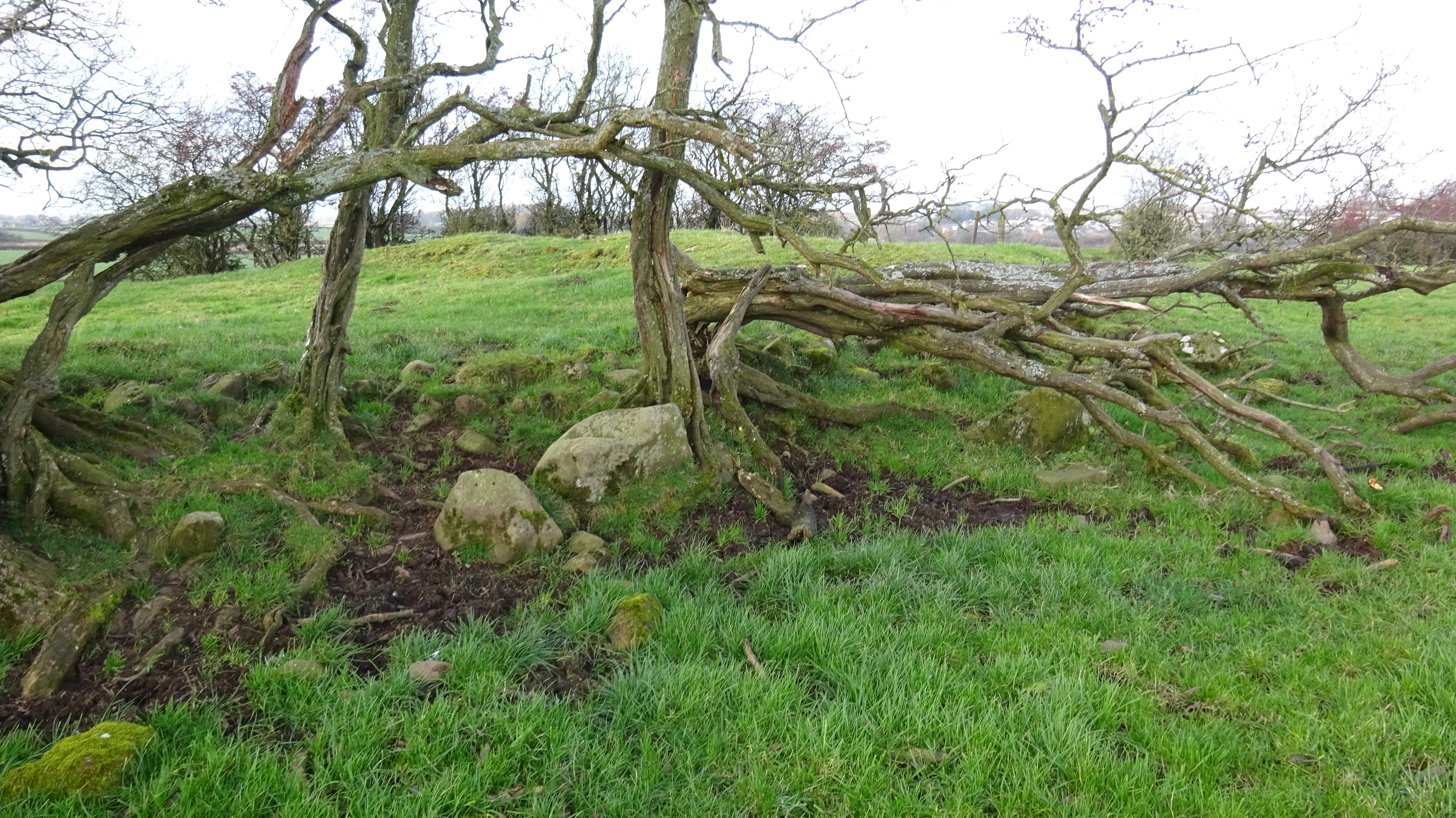 The Bronze Age cairn at Cairnduff Hill, Stewarton, East Ayrshire, Scotland. Curb stones, etc. Robbed in 1810 and three beakers found.